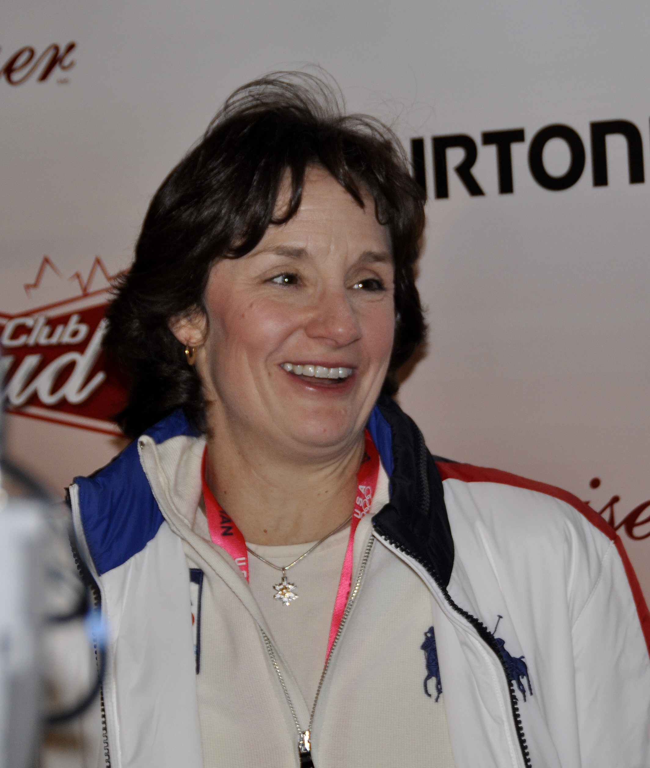 Bonnie Blair at the Club Bud private Burton partyNorsk bokmål: Bonnie Blair ved Club Bud's private Burton party